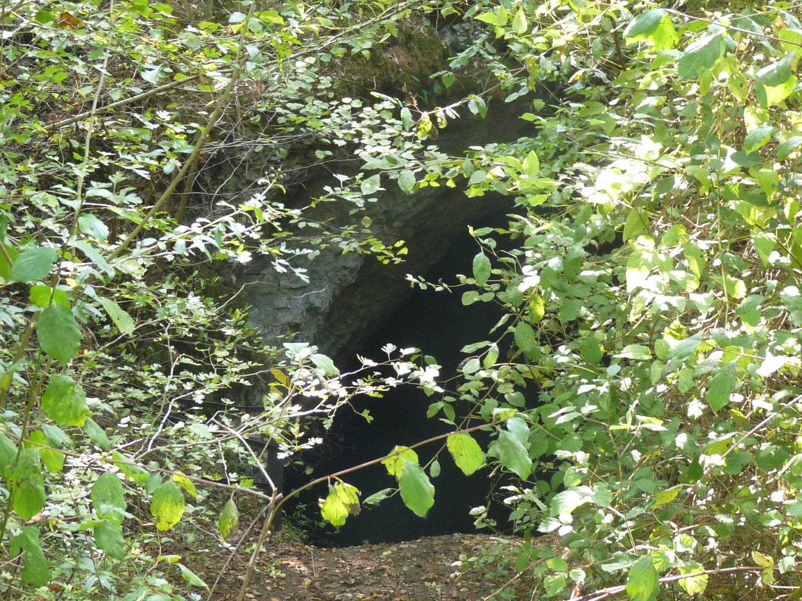 Fosse mobile (karstic well), Braconne forest, Charente, SW France